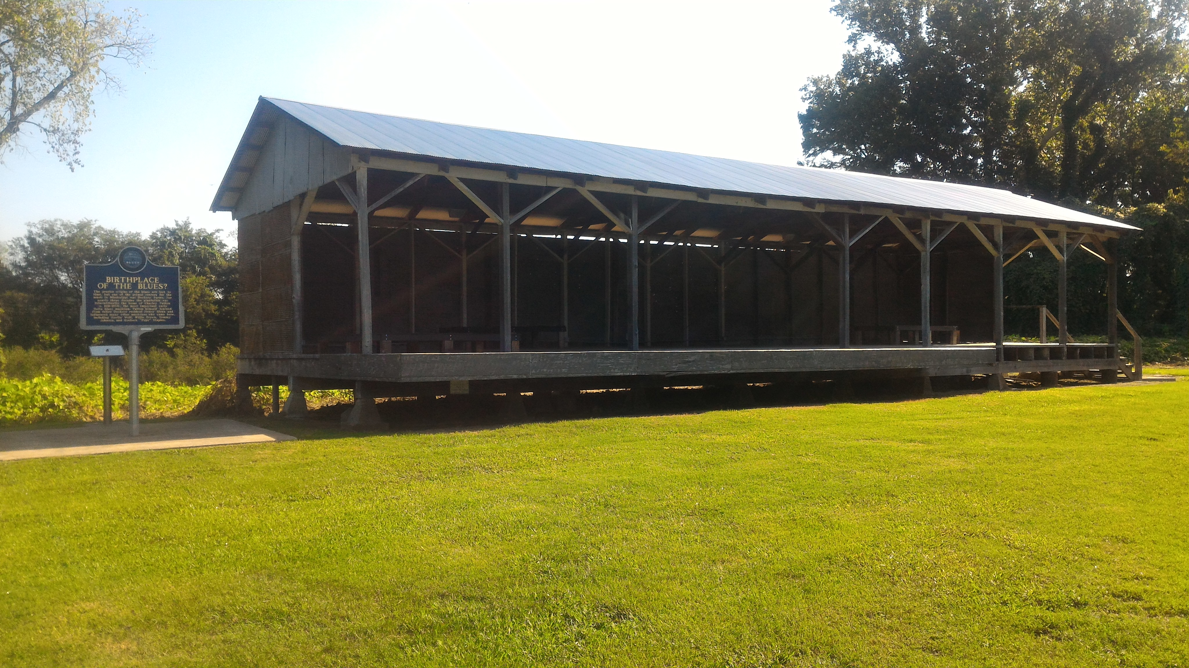 Mississippi Blues Trail marker along Mississippi Highway 8